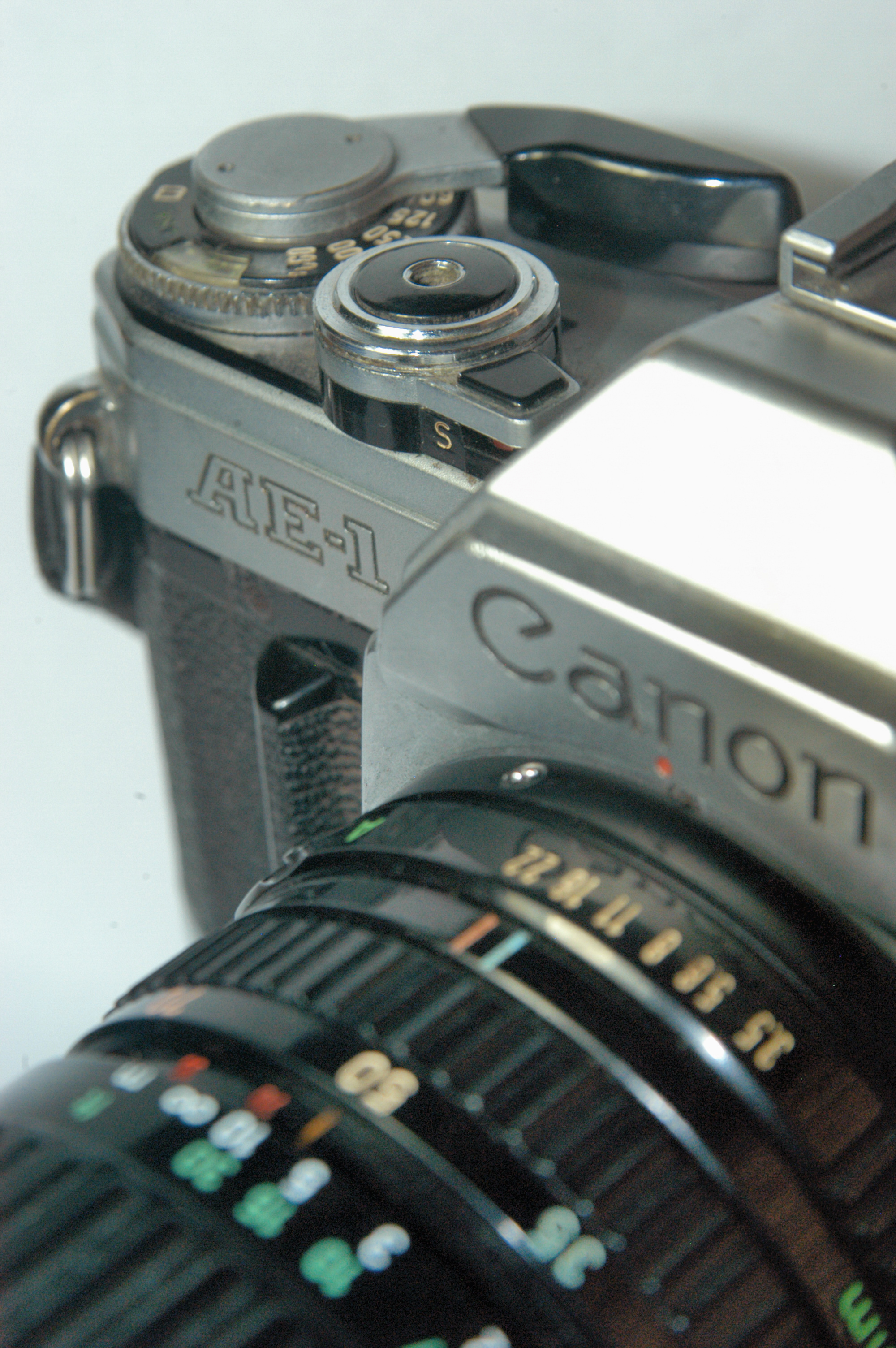 Canon AE-1